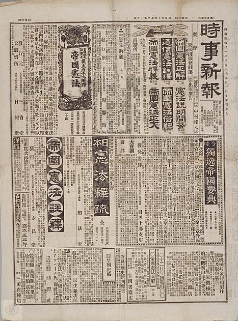 Jiji Shinpo, say "Current-affairs News",was a leading newspaper in the Meiji and Taisho eras. It was edited by the staffs of Yukichi Fukuzawa and Keio University.